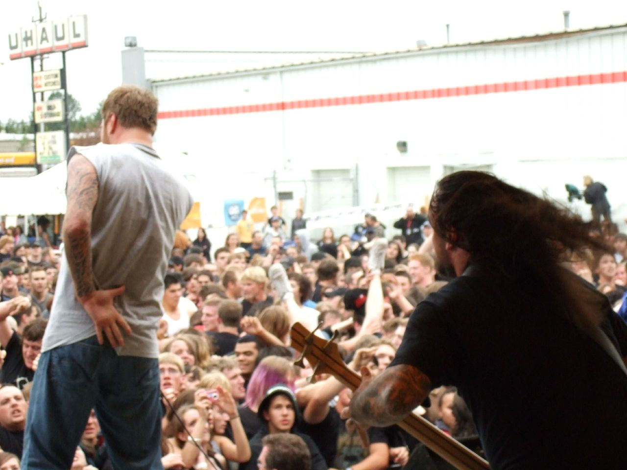 Brock Lindow and Mick Whitney from 36 Crazyfists live in Alaska 2007.